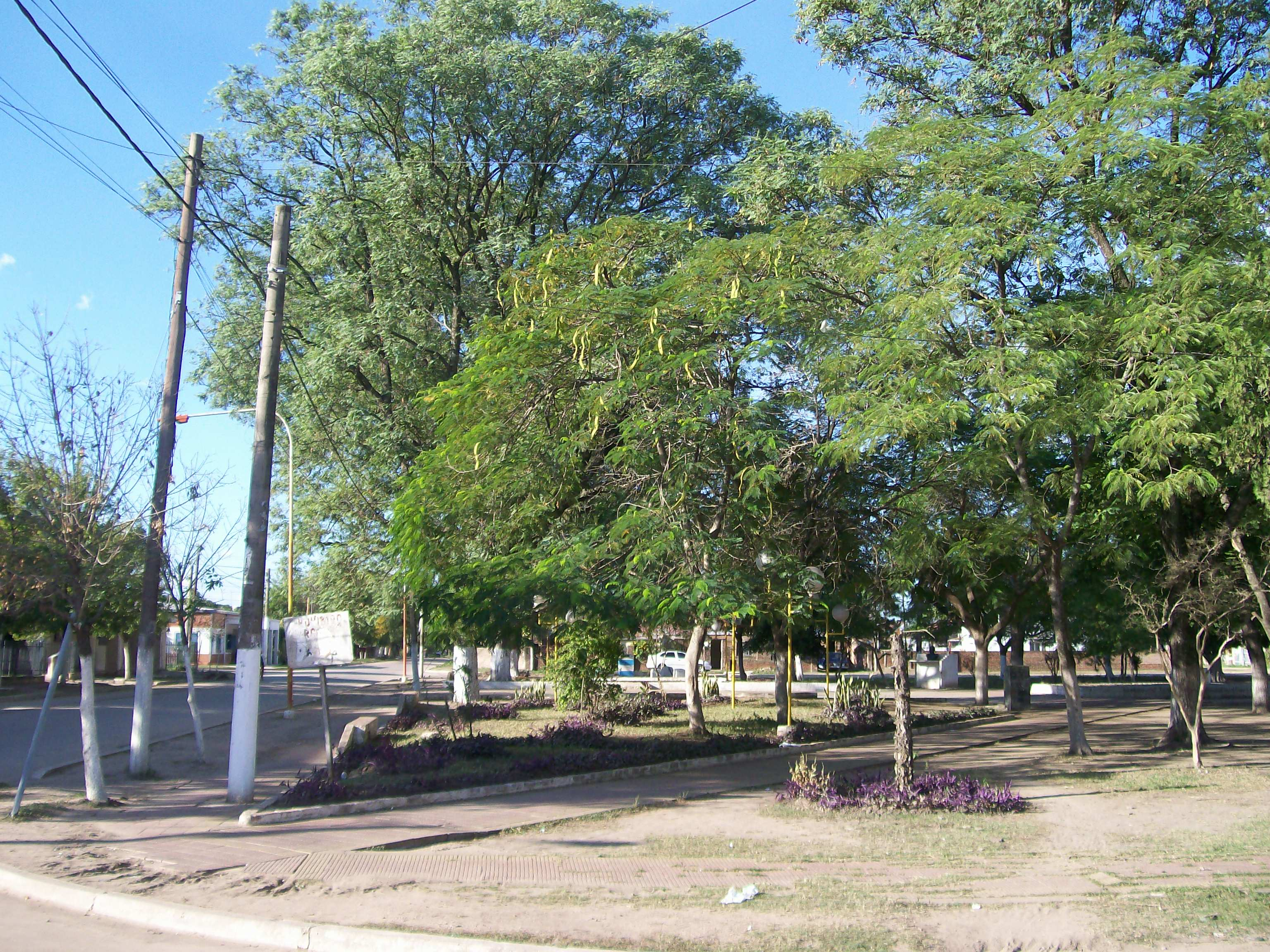 Nort-West side of main square in Fontana (Chaco Province, Argentina). Vista desde el oeste.